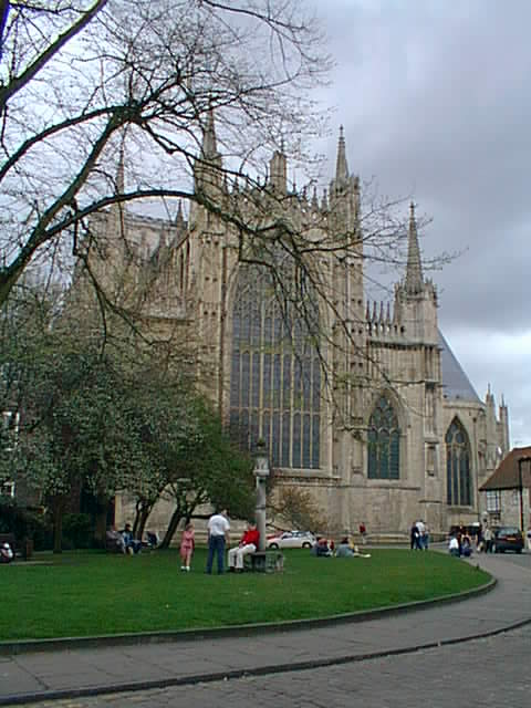 York Minster. Built in the Perpendicular Gothic style, the east end of the Minster was begun in 1361, dominated by the Great East Window which rises high above the lady chapel.